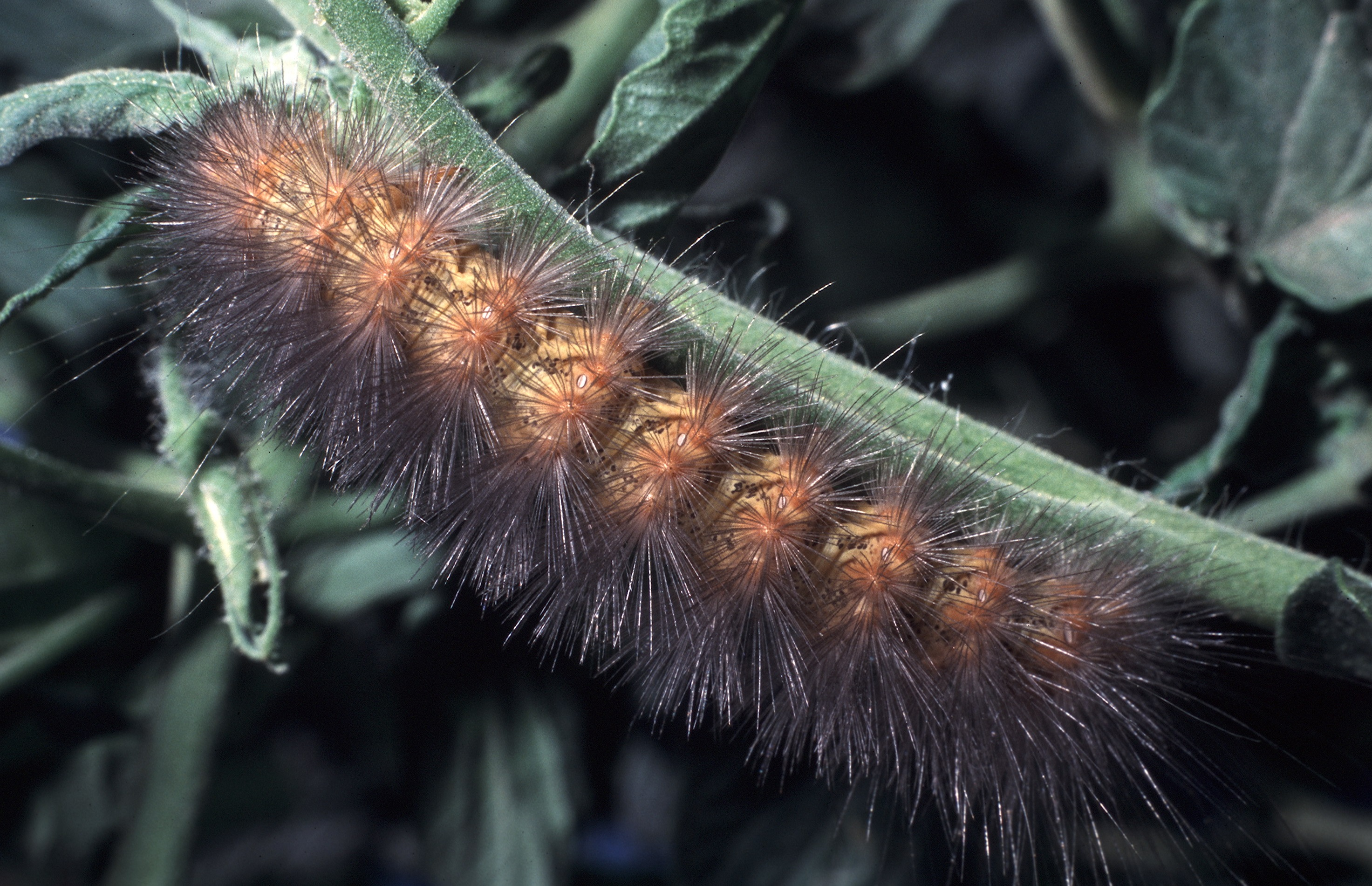 Salt Marsh Caterpillar (Estigmene acrea)